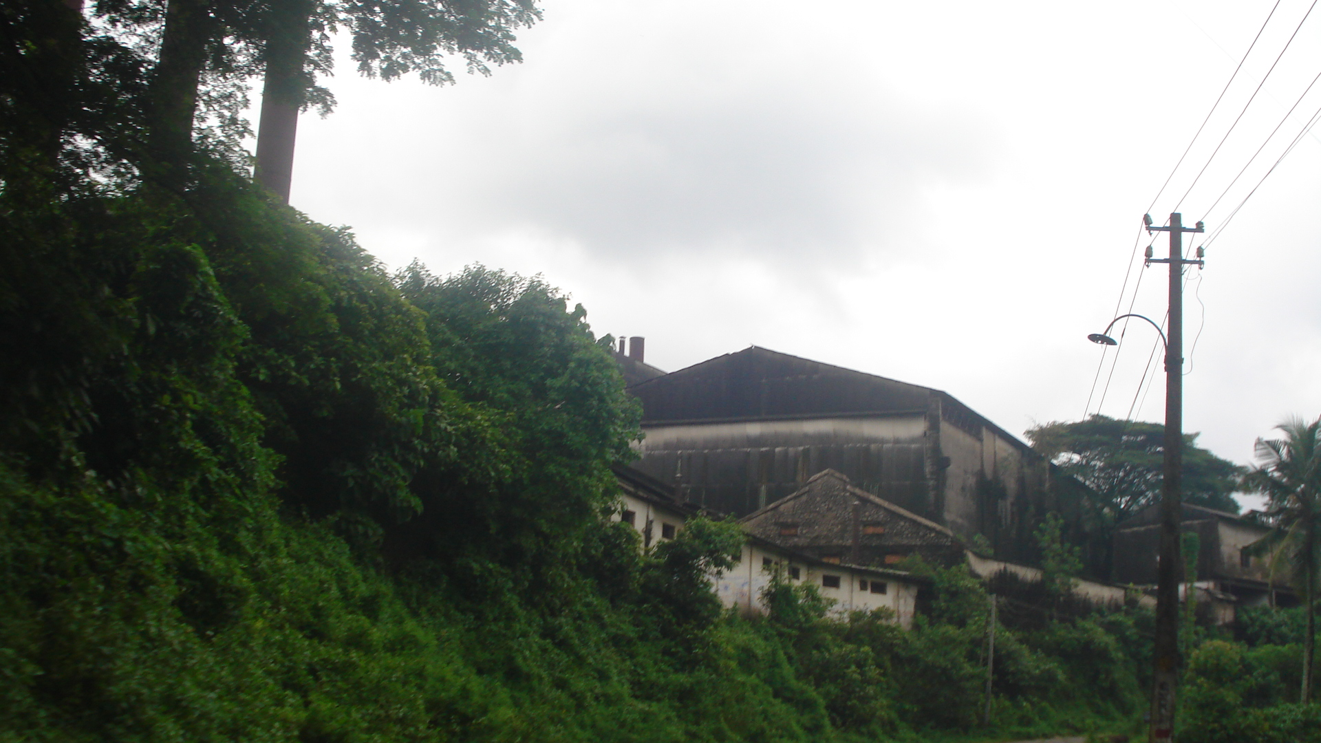 Punalur Paper mill factory